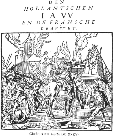 Looting of Tienen (Belgium) in 1635